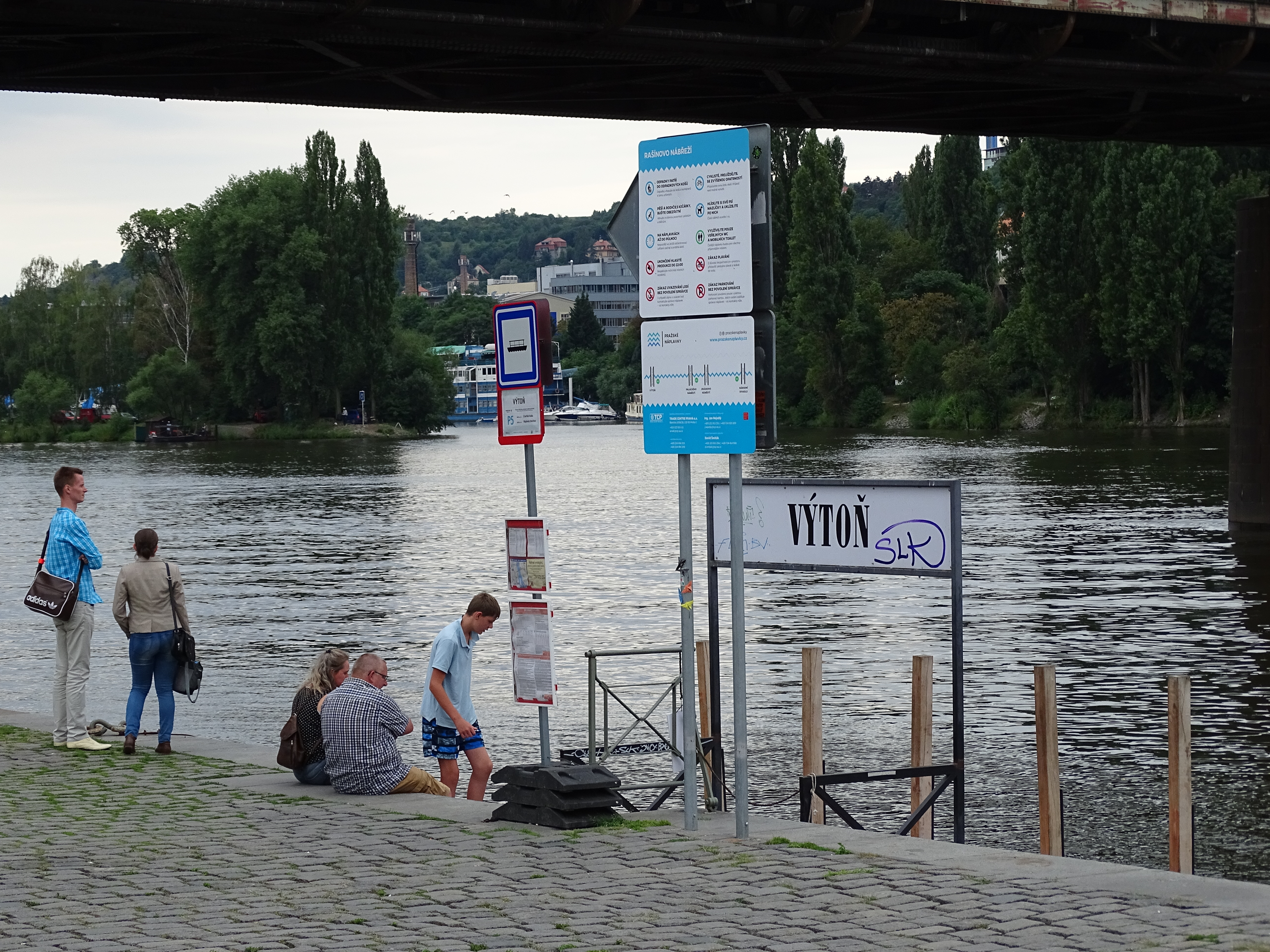 Prague-New Town, Czech Republic. Vltava river, Rašínovo nábřeží, a landing of P5 ferry.